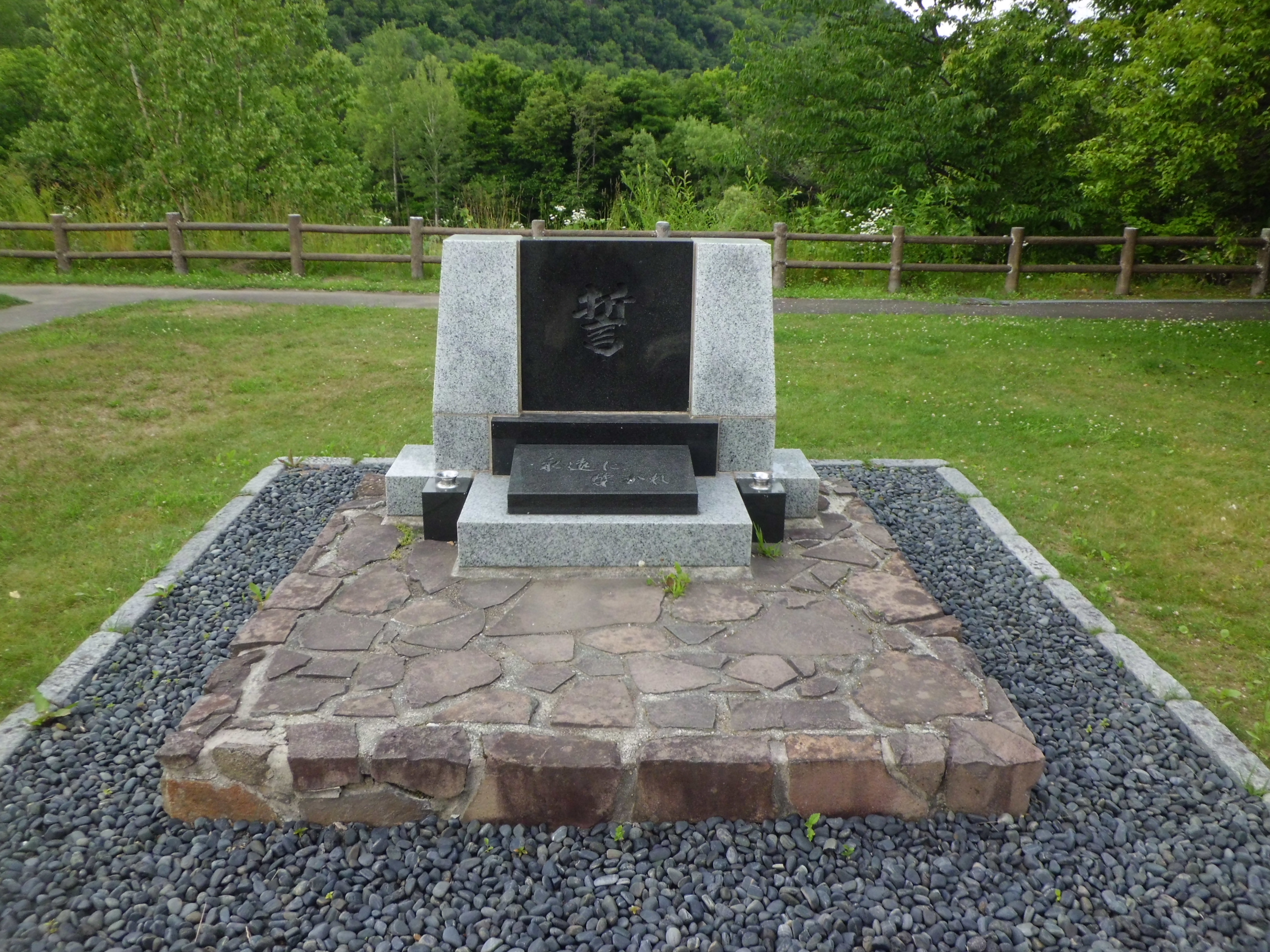 Cenotaph at Jugoshima Park